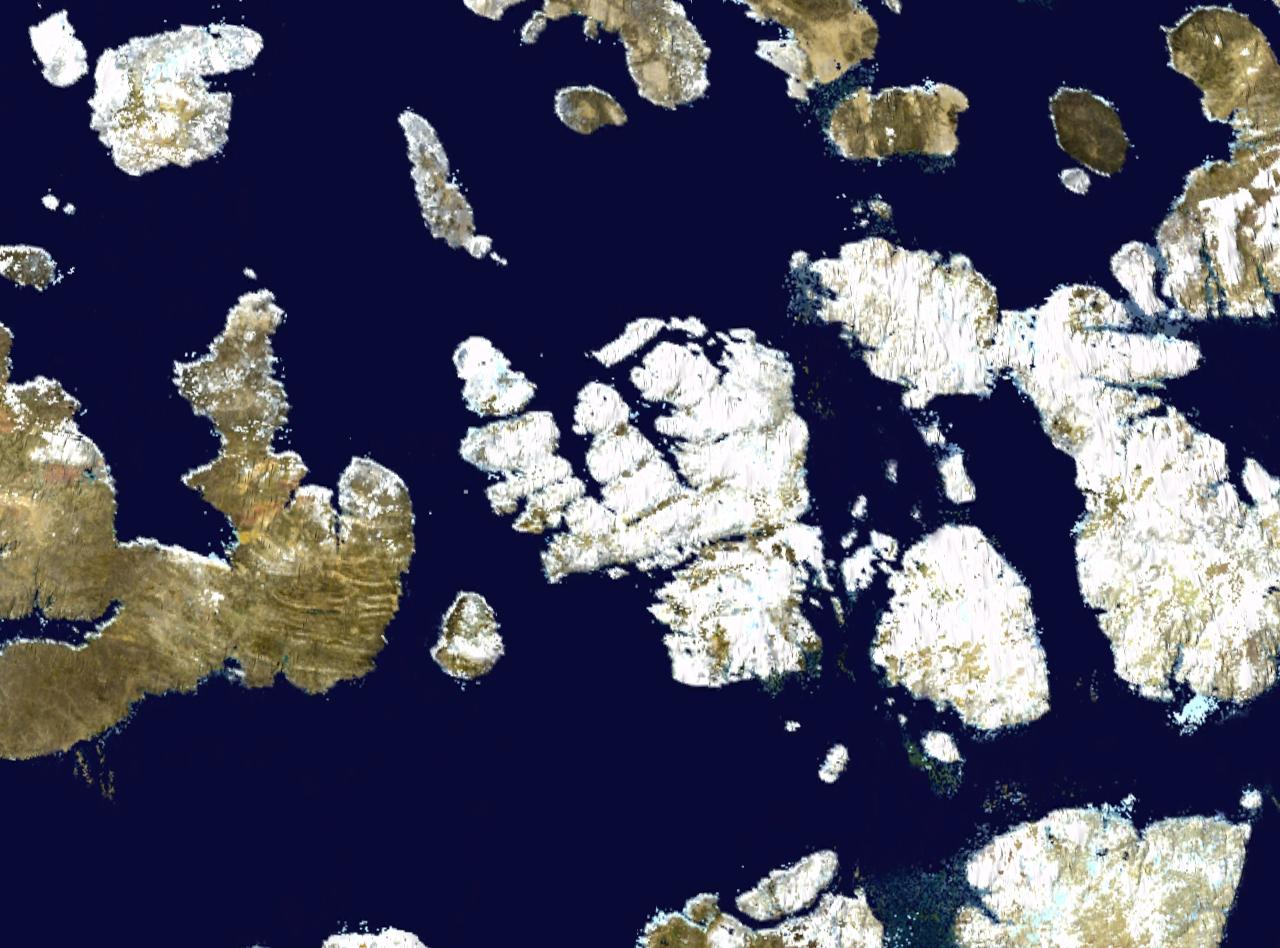 Bathurst Island in the Canadian arctic. ASA blue pearl data.